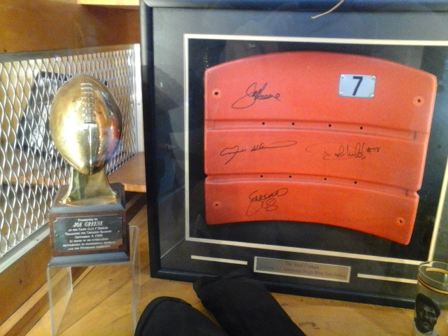 Closeup of Joe Greene's trophy and a Three Rivers Seat signed by the Steel Curtain in the Heinz Field Walk of Fame.